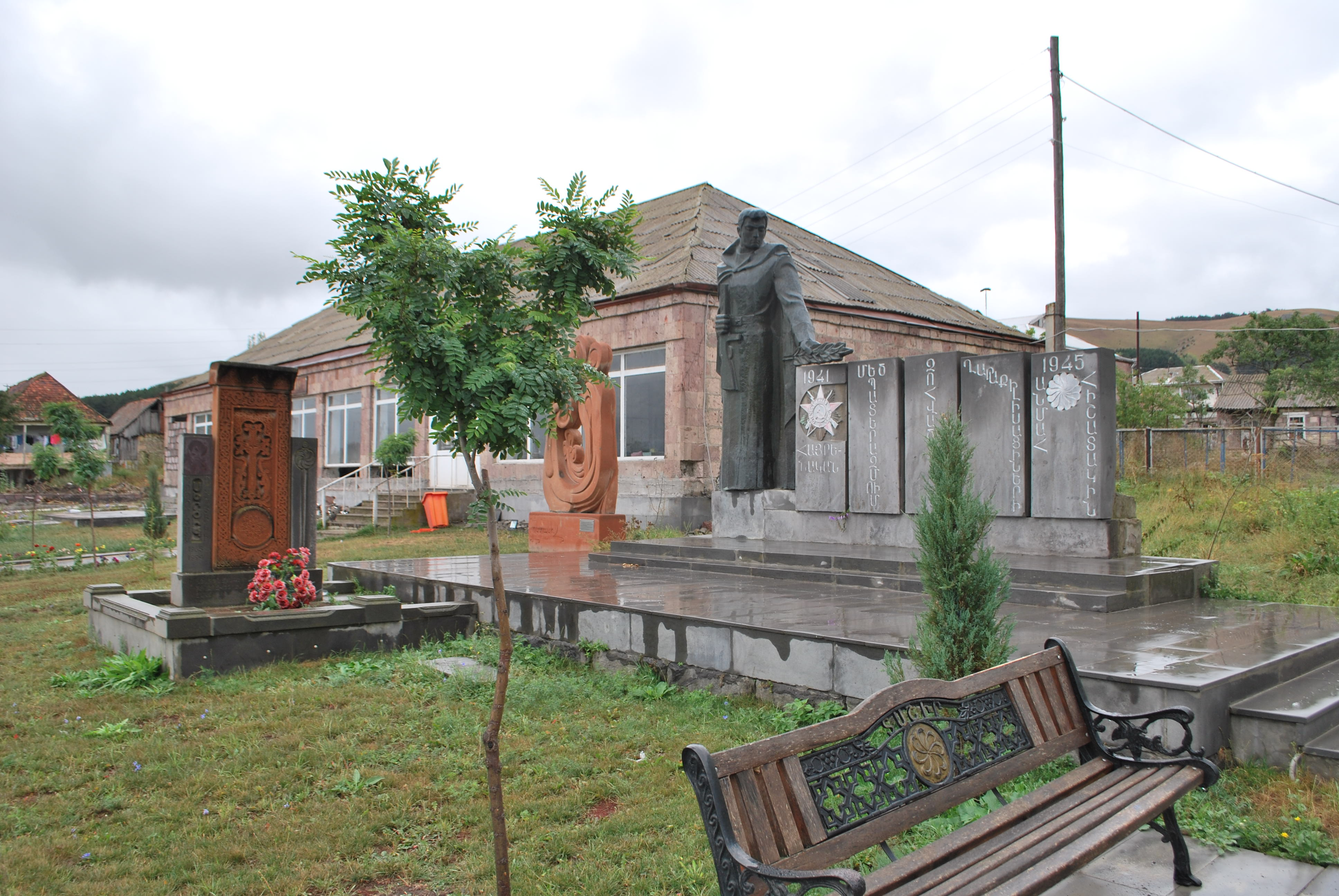 WW2 Monument in Lernahovit